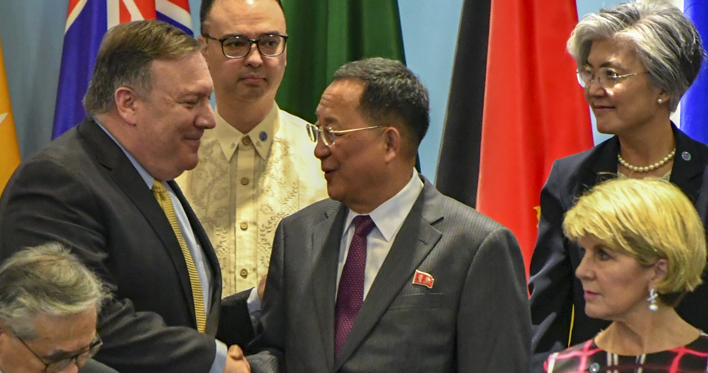 Secretary Michael R. Pompeo had the chance to speak with his DPRK counterpart FM Ri Yong Ho at ASEAN today. They had a quick, polite exchange and the US delegation also had the opportunity to deliver President Donald Trump’s reply to Chairman Kim’s letter. August 4, 2018. [State Department Photo / Public Domain]